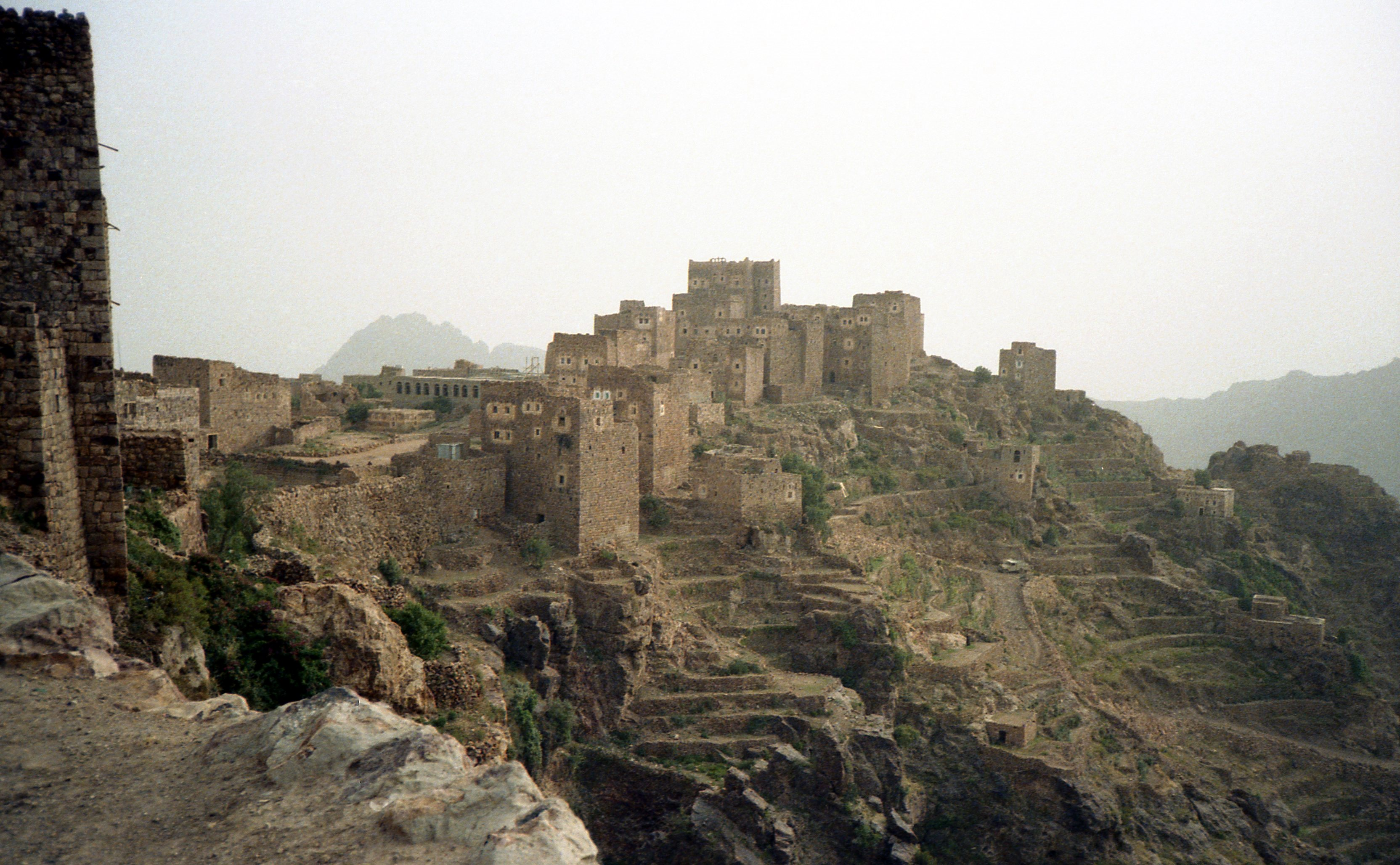 Village of Shaharah, Yemen